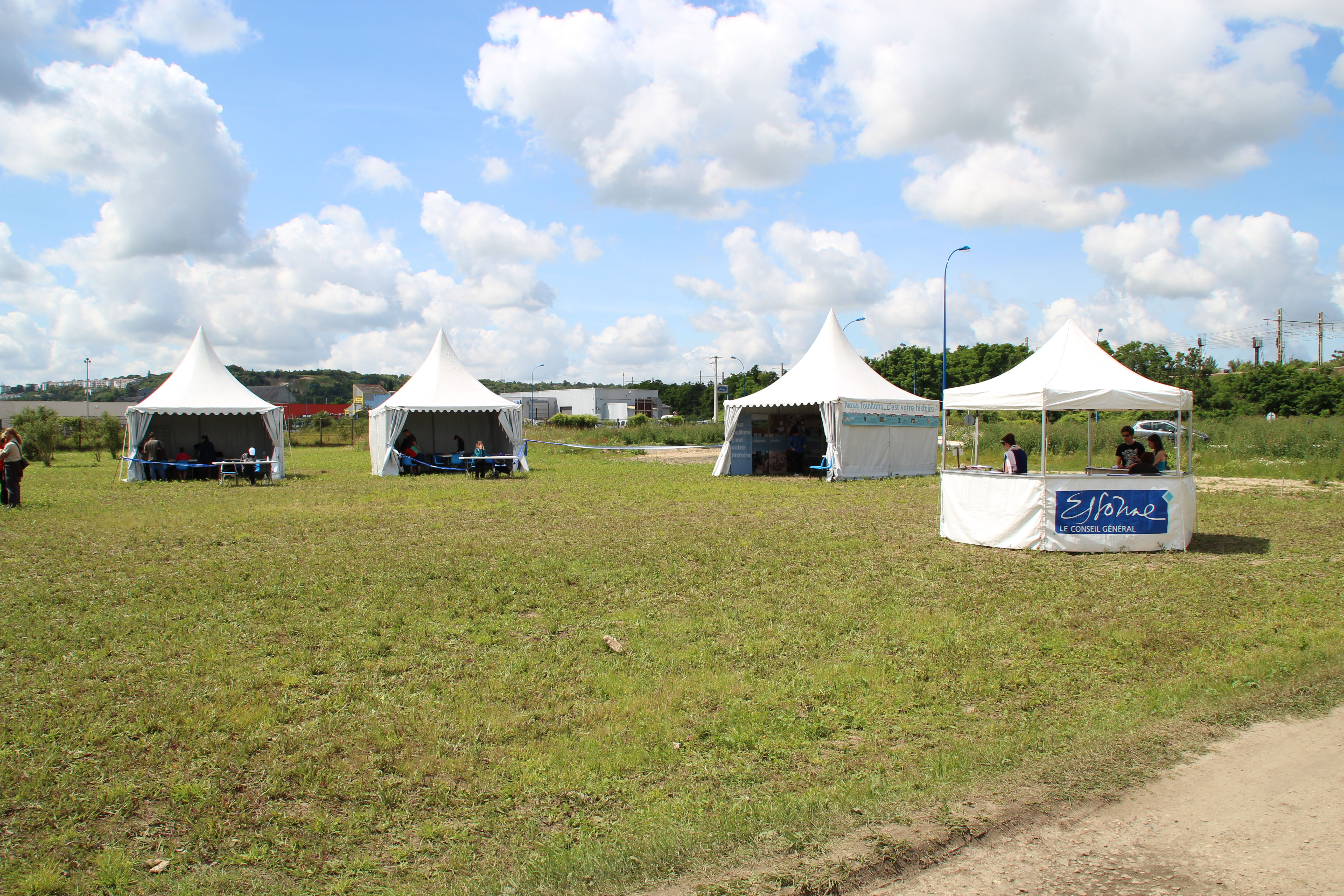 Archaeological site next to the industrial area SudEssor on the highway 20 at the entrance of Morigny-Champigny, France.